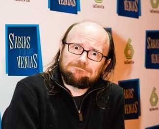 Spanish actor and film maker Santiago Segura.